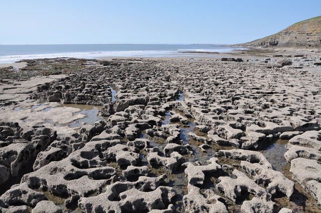 Eroded limestone pavement - Dunraven Bay I would be grateful for any information as to how this 'erosion' might have taken place. In my ignorance I would assume that pockets of softer sedimentary rock have merely been worn away to form these fissures and hollows.